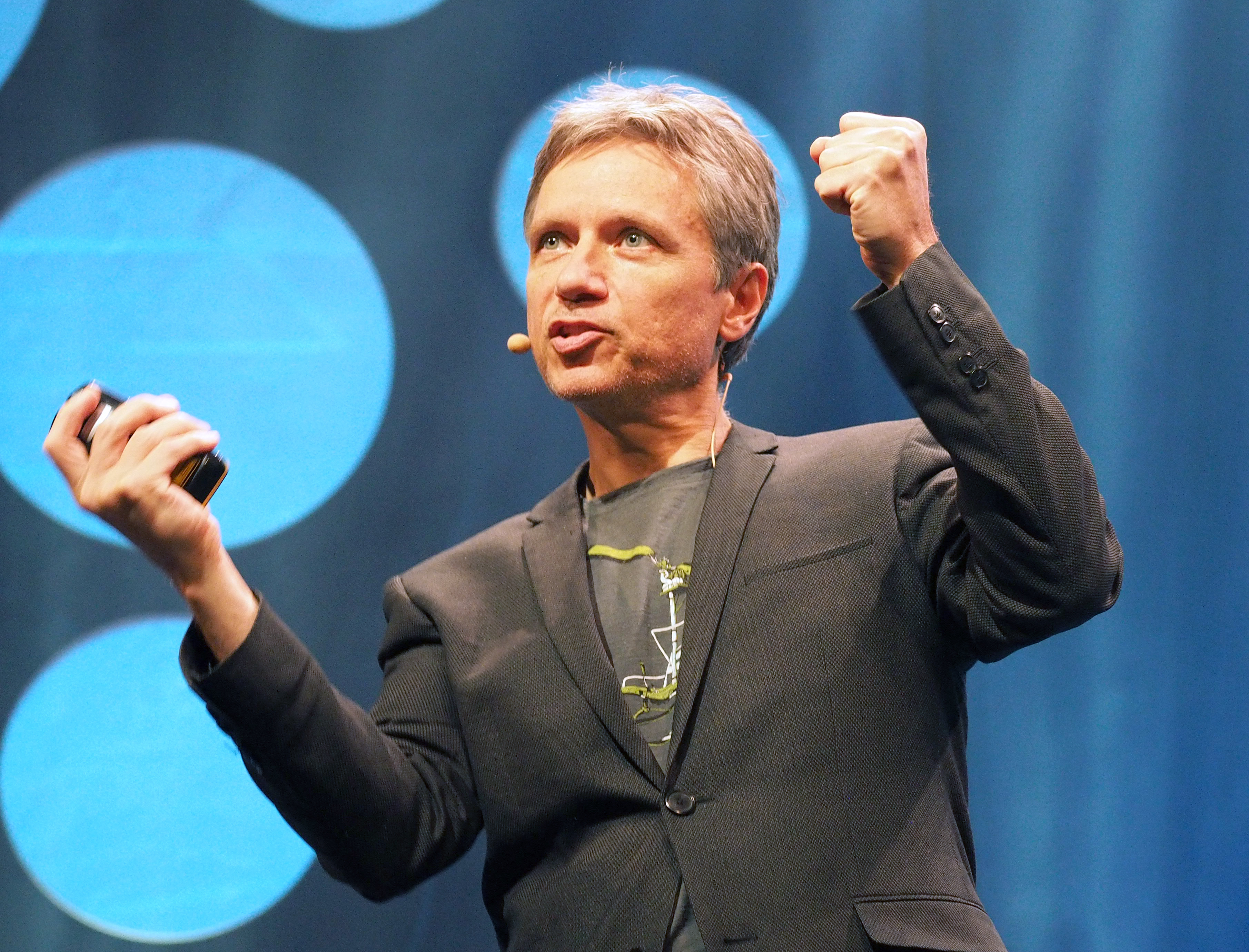 The Big Challenge Science Festival in Trondheim Olavshallen, 18 June 2019 What autonomous systems are capable of Raffaello D’Andrea, Professor and artist Photo: Per Henning/NTNU, The Big Challenge Science Festival